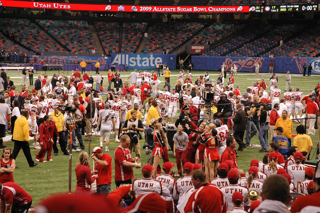 The team of the Utah Utes after winning the 2009 Sugar Bowl in New Orleans on January 2, 2009